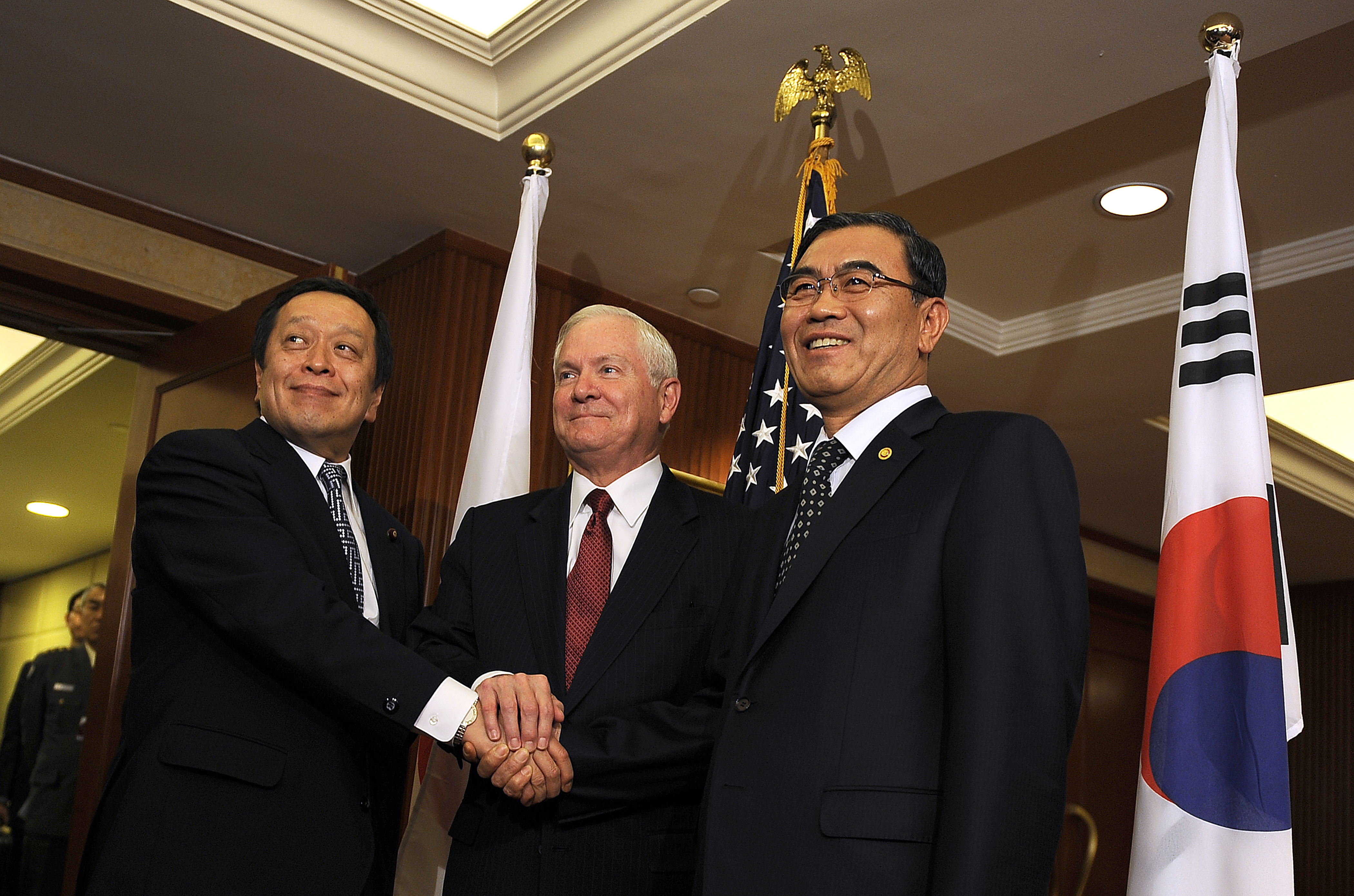 Yasukazu Hamada, Minister of Defense, and Robert Gates, Secretary of Defense, met Lee Sang-Hee, Minister of National Defense, at the "Shangri-La Dialogue" in Singapore on May 30, 2009.